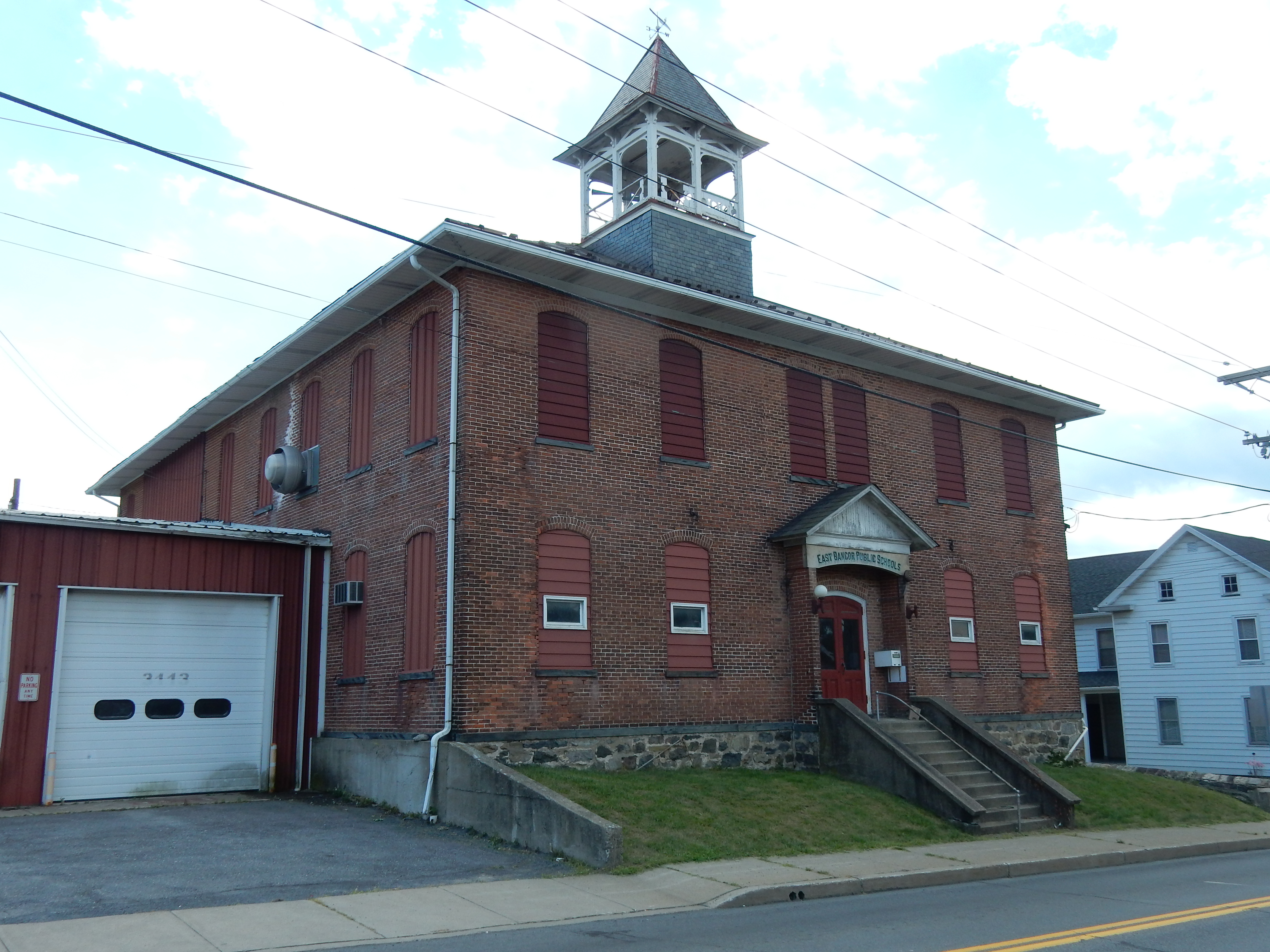 East Bangor Public Schools Bldg. on E. Central Ave., East Bangor, Northampton County, Pennsylvania.